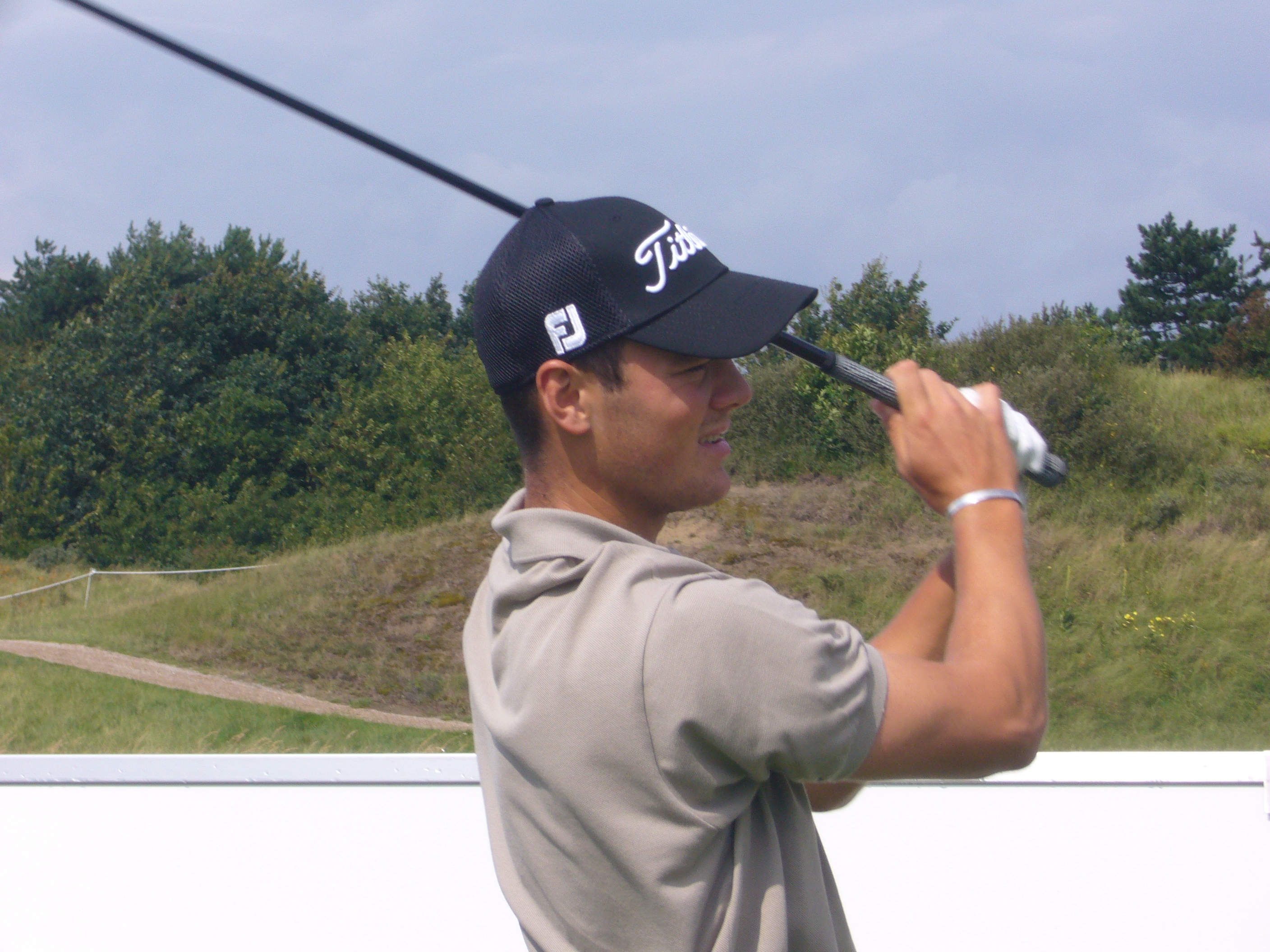 Martin Kaymer, German golfprofessional, at the KLM Open in Zandvoort